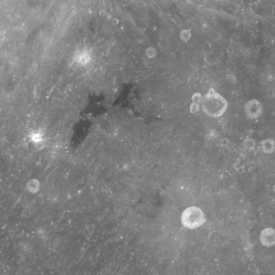 Hedin crater, on the moon. Dark patches are small mare deposits (basalt). The eroded crater rim is practically invisible due to the high sun angle. Image width is approximately 200 km. Clementine UVVIS 750 nm mosaic.